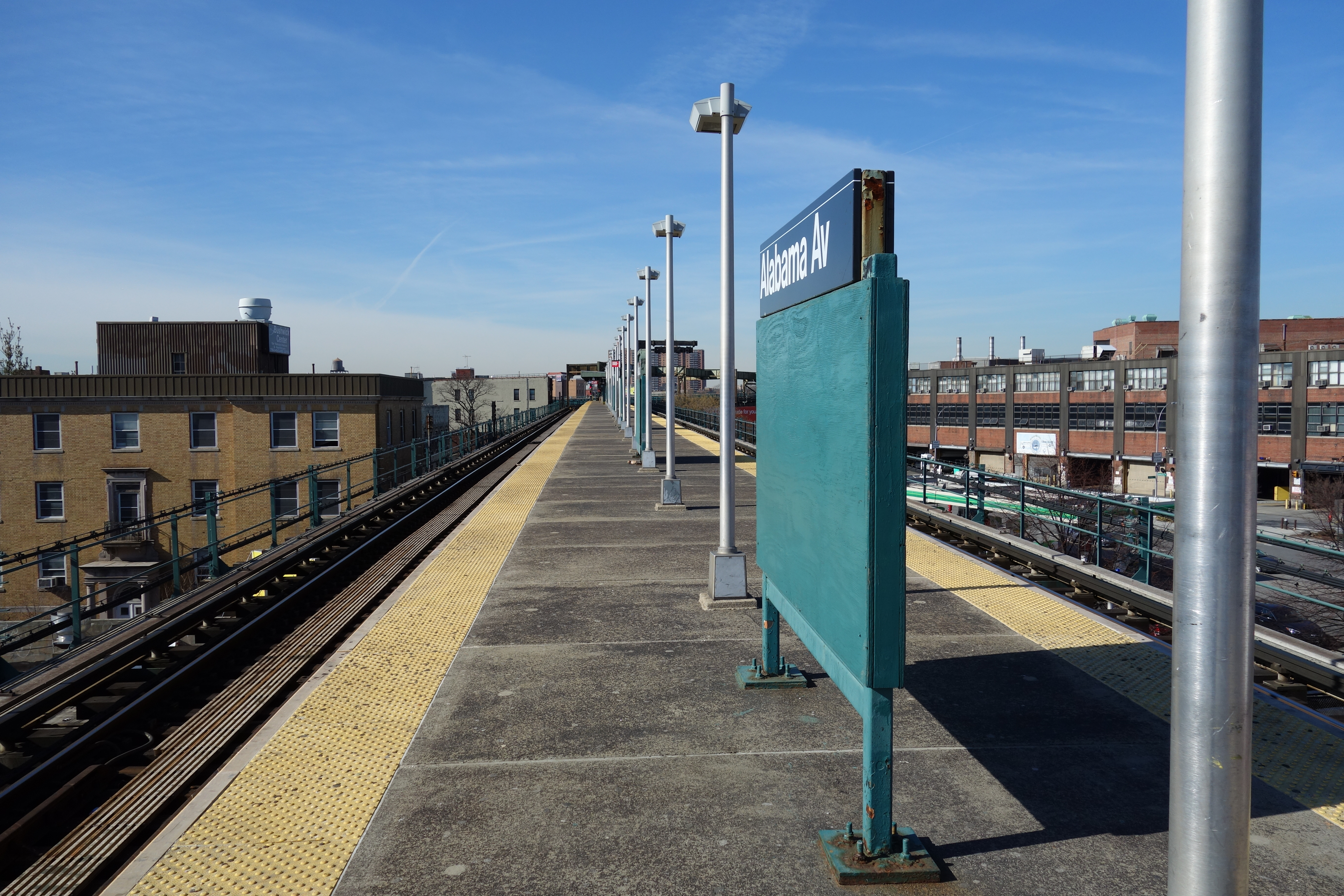 Looking west from the east end of the Alabama Avenue station, at Fulton Street between Sheffield Avenue and Pennsylvania Avenue in East New York, Brooklyn.